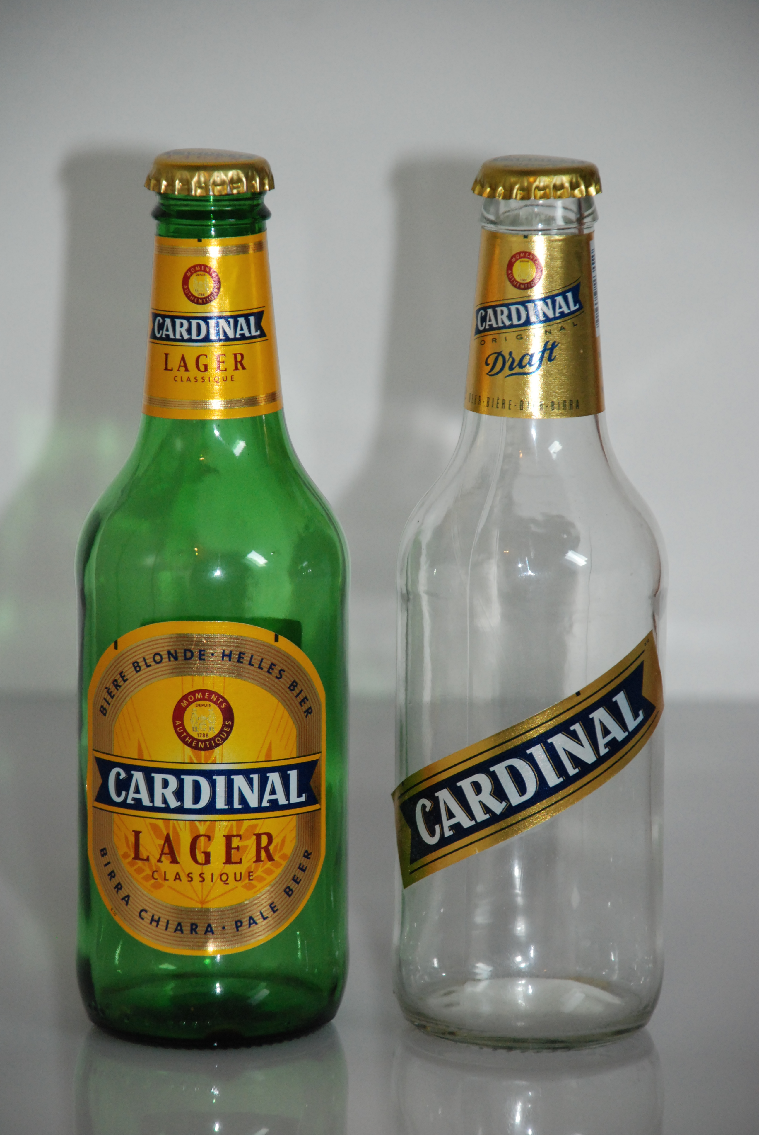 Two bottles of Cardinal beer: Lager Classique (left) and Original Draft (right)